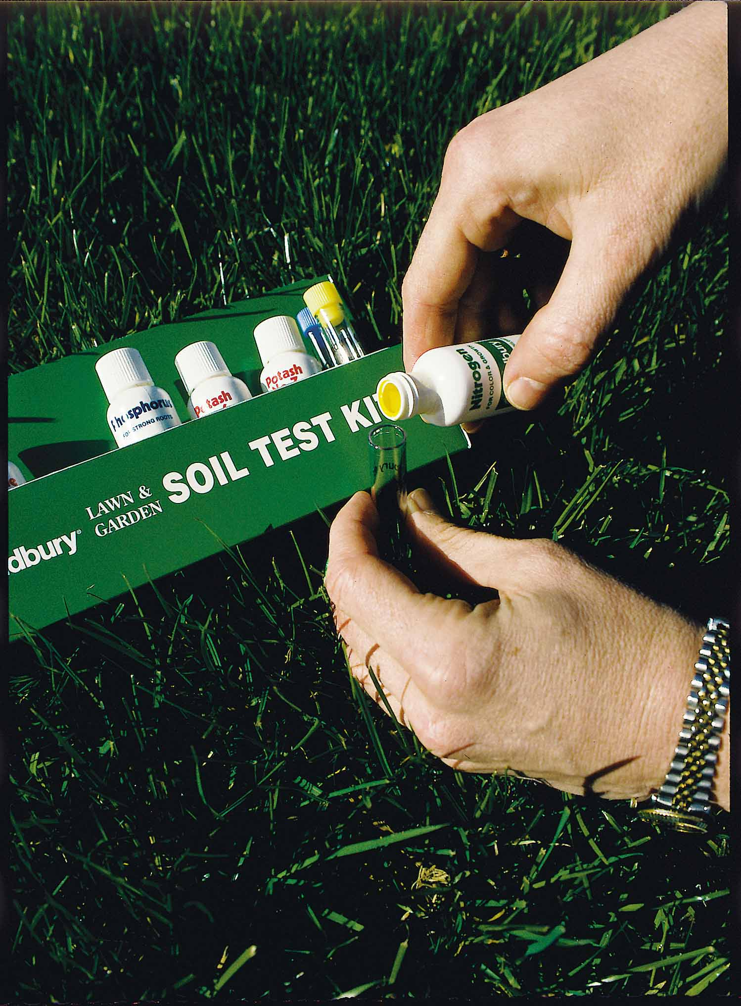 Homeowners are encouraged to test their soils for nutrient needs, and to apply only what nutrients are needed for a healthy lawn. Farmers practice the same testing procedure.